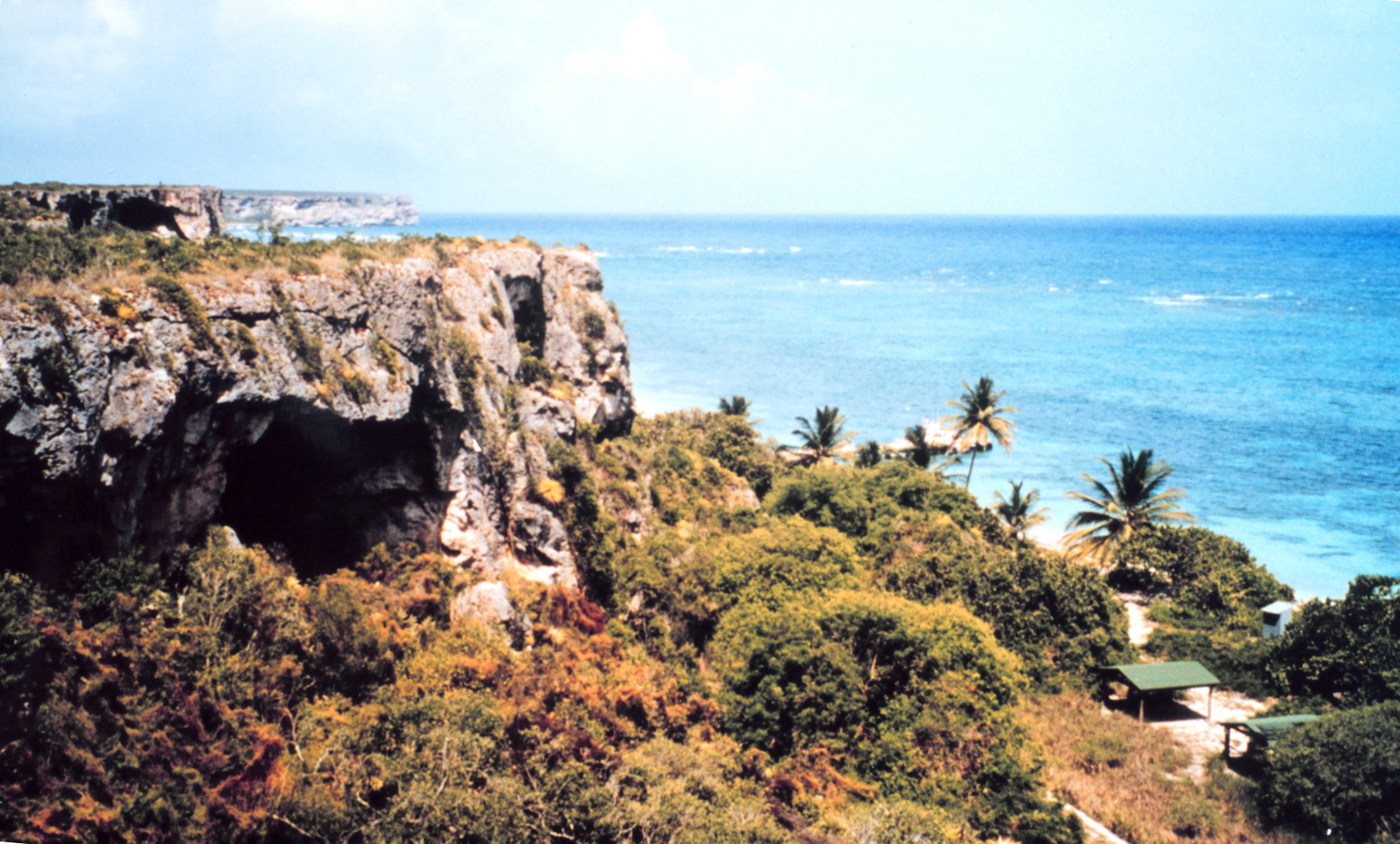 Playa Pajaros, Mona Island, Puerto Rico. The road down to the only existing housing at Mona Island leads to the staging and docking areas for the restoration workers